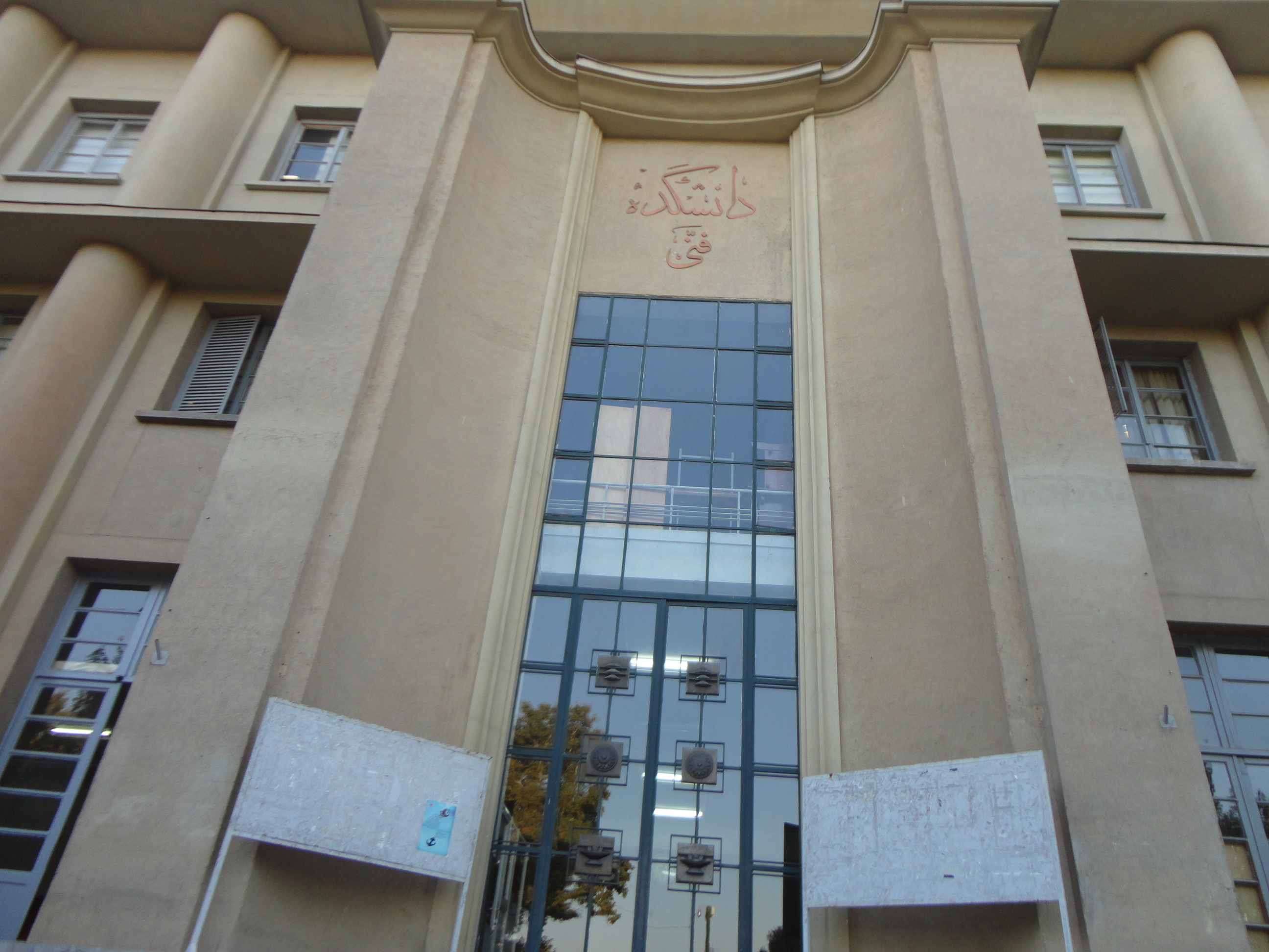 School of civil engineering, University of Tehran